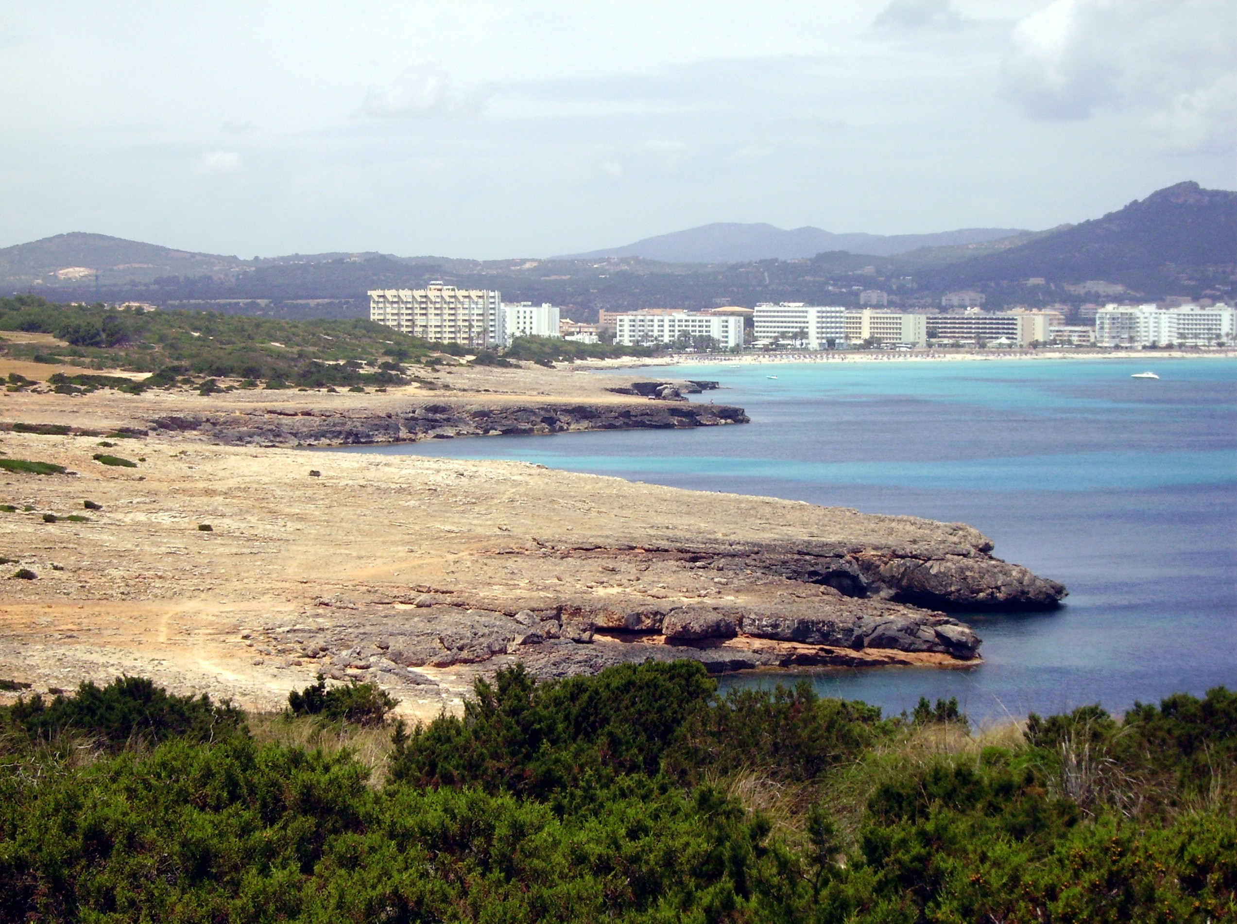 Punta de n'Amer, Eastcoast of Mallorca, Spain